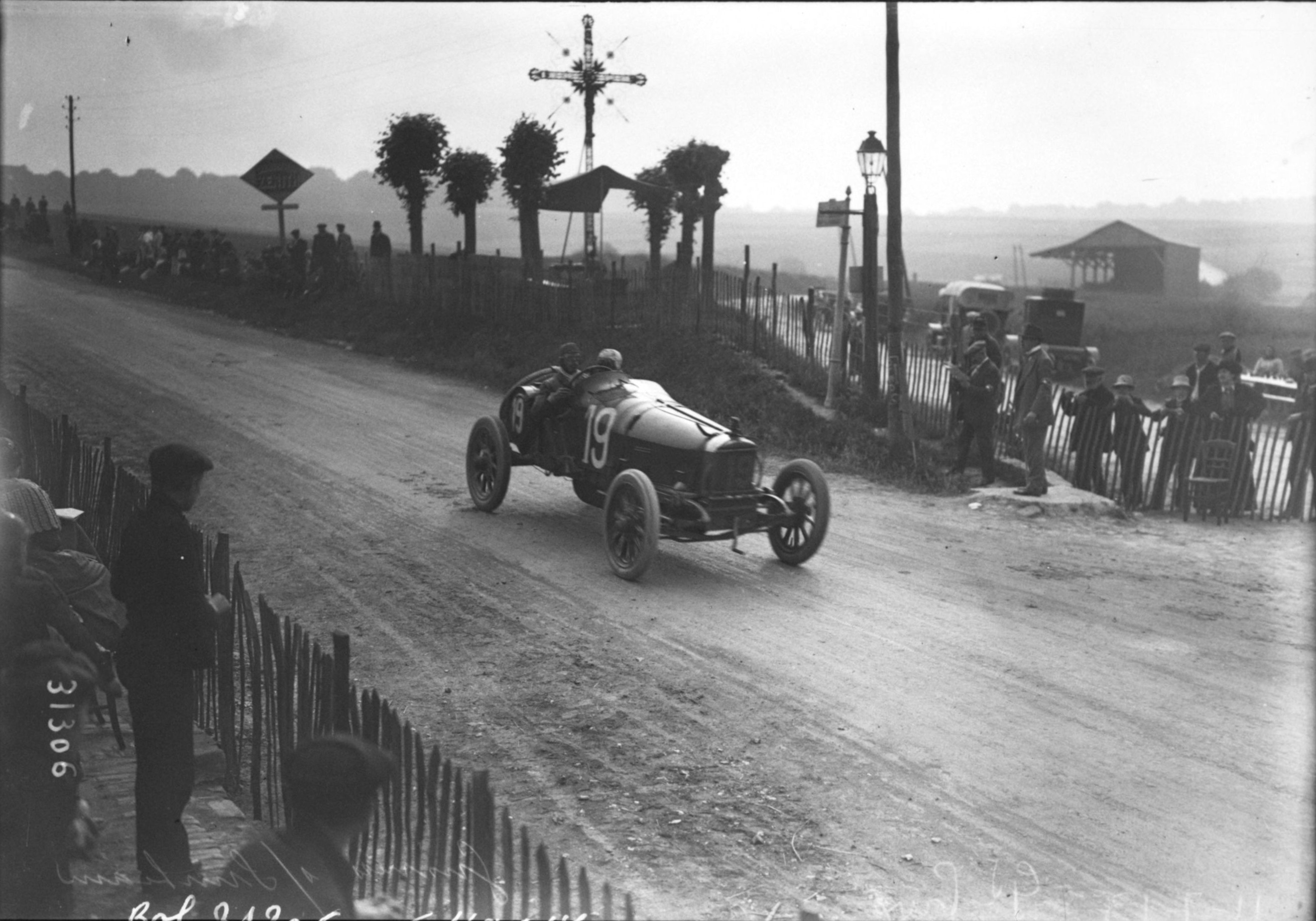 Kenelm Lee Guinness at the 1913 French Grand Prix